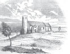 Small engraving of All Saints' parish church, Gresham, Norfolk, an illustration from from John William Burgon's The Life and Times of Sir Thomas Gresham (1839)